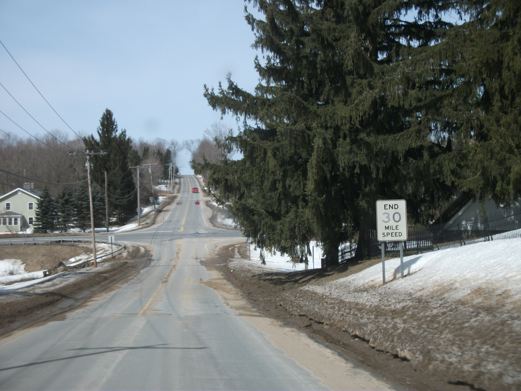 The old alignment of New York State Route 28B approaching its former southern terminus at current-day New York State Route 365 (former New York State Route 287) in Prospect, New York.